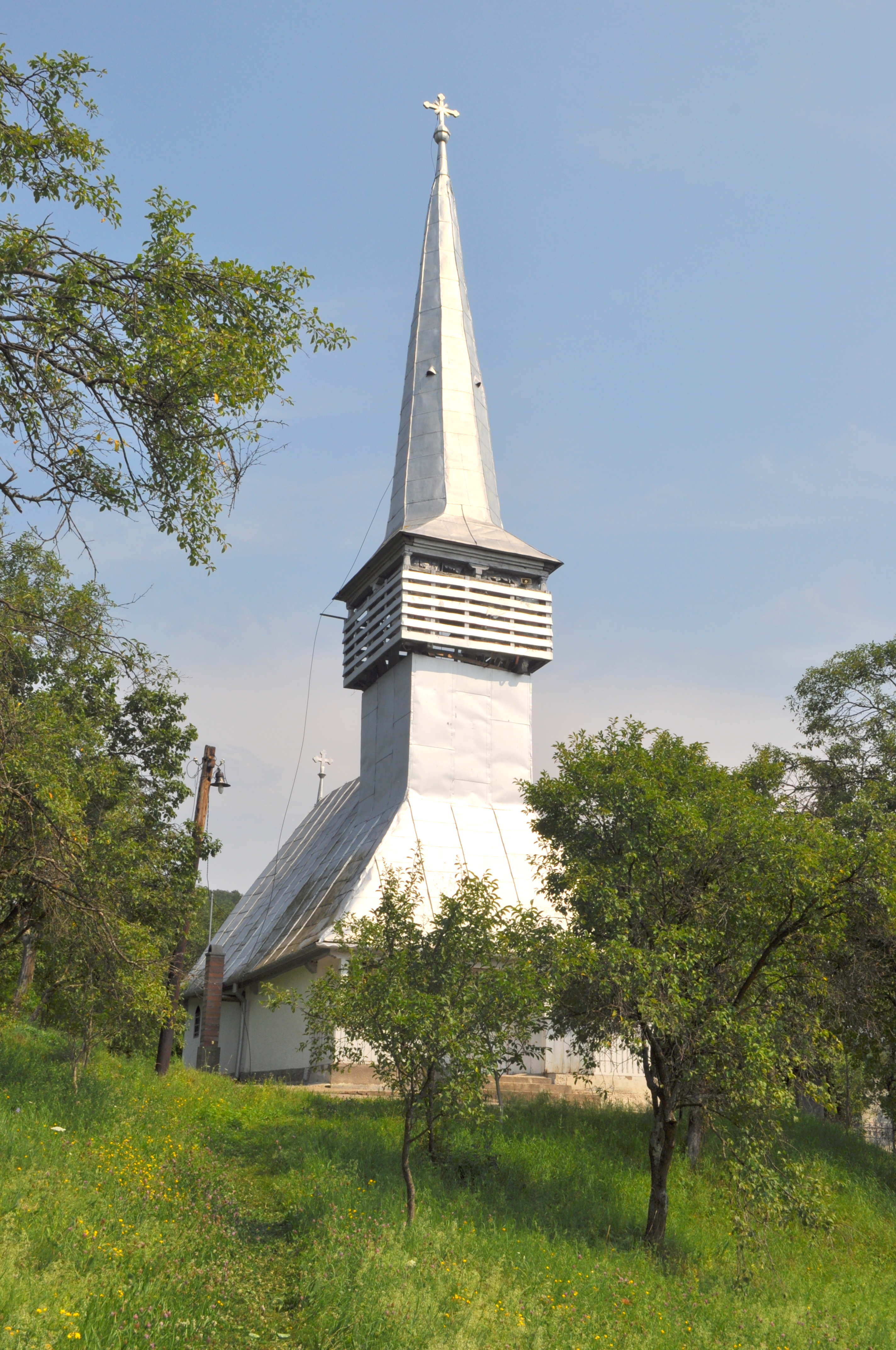 Wooden church in Sântă Măria, Sălaj county, Romania